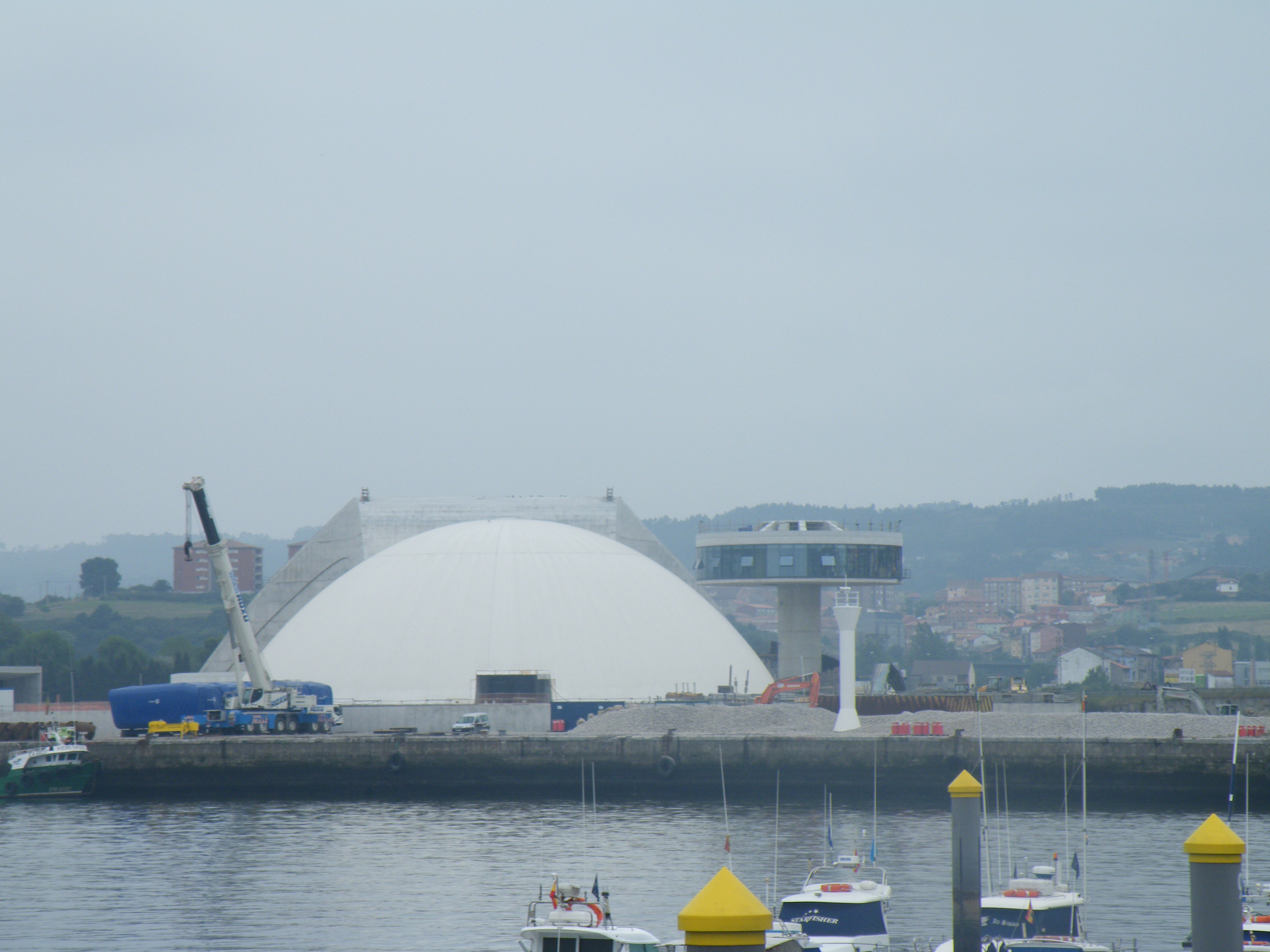 Oscar Niemeyer Cultural Center (in construction) in Avilés (Spain)